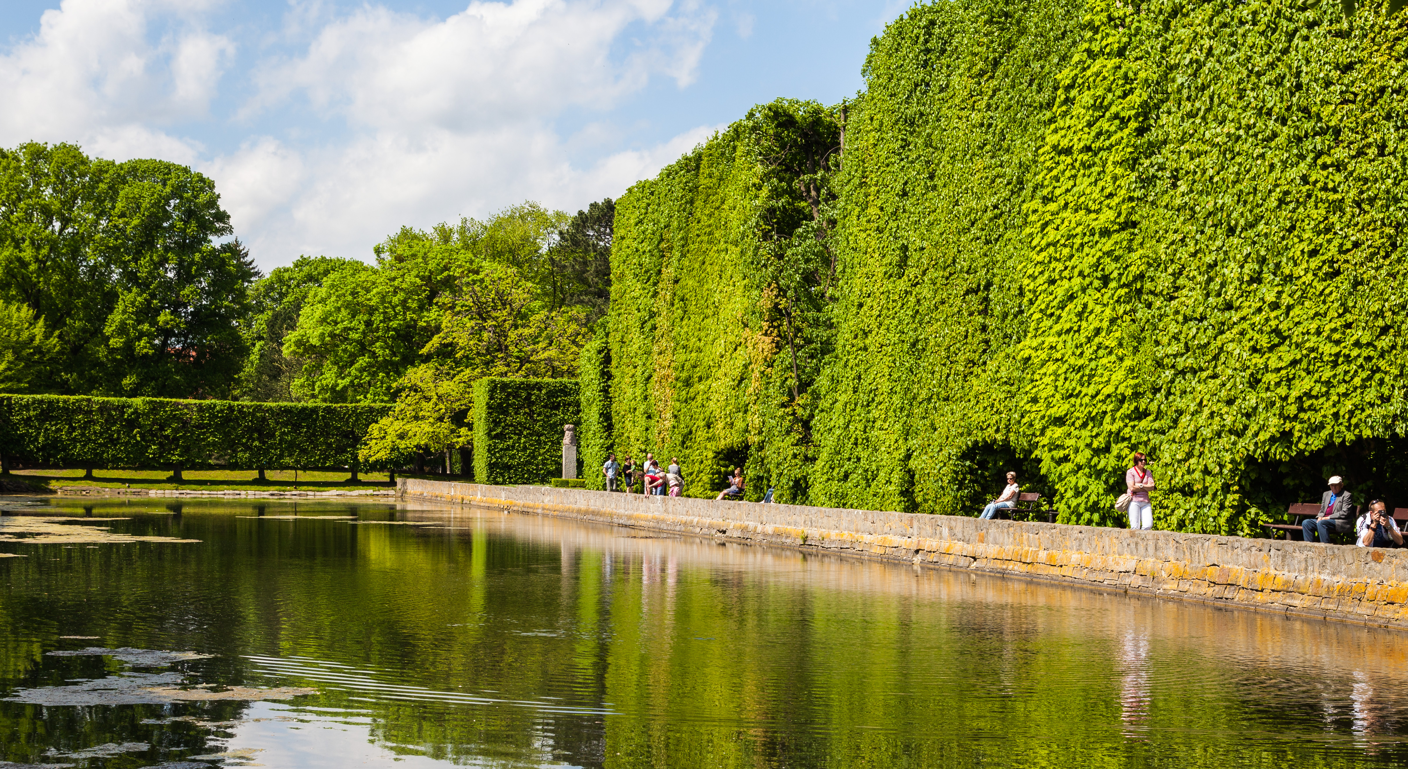 Adam Mickiewicz Park, Oliwa, Gdańsk, Poland